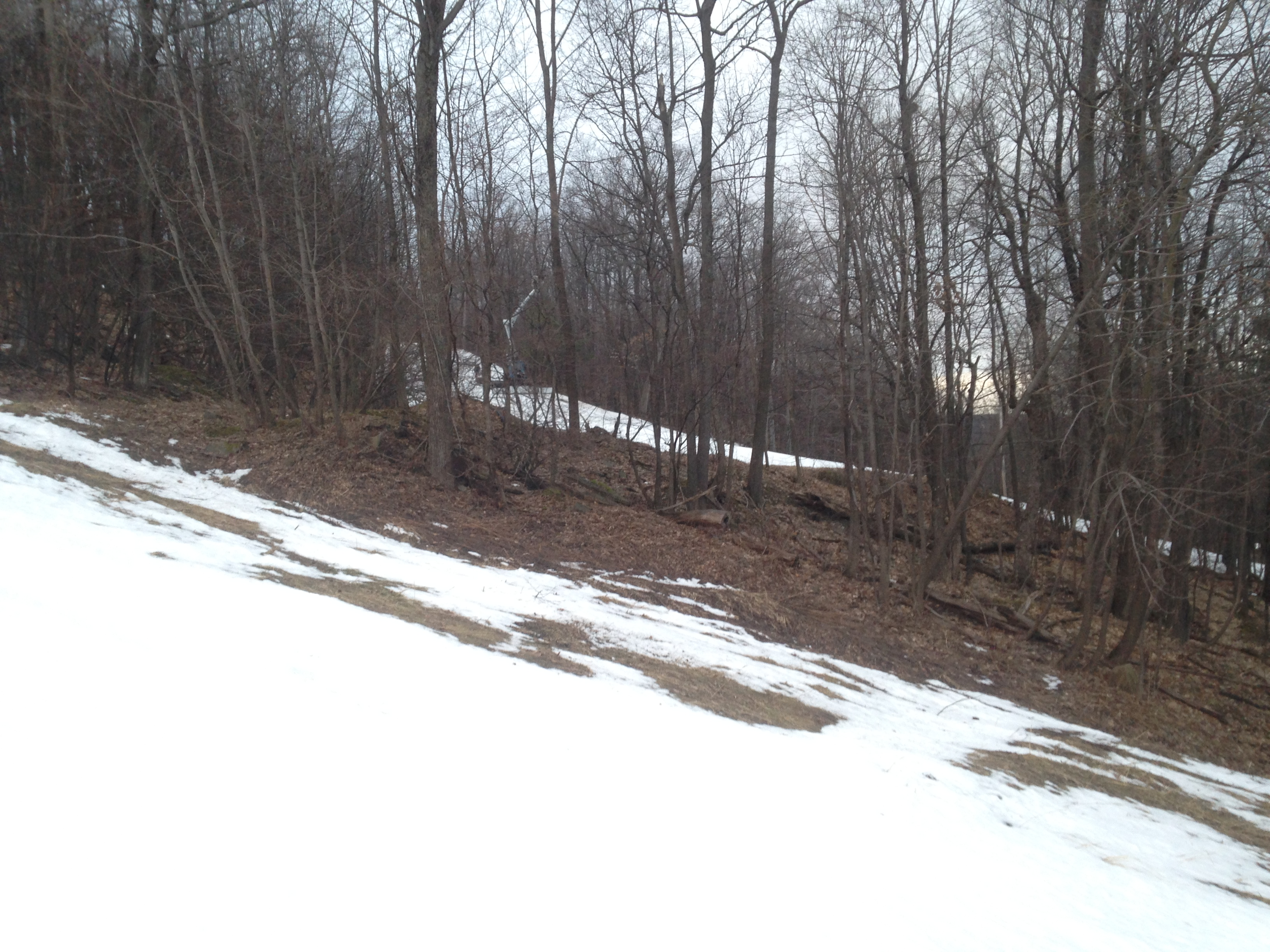 No natural snow between trails on small ski mountain in NY, Feb 2017, utility lift fixing trail lighting in background.